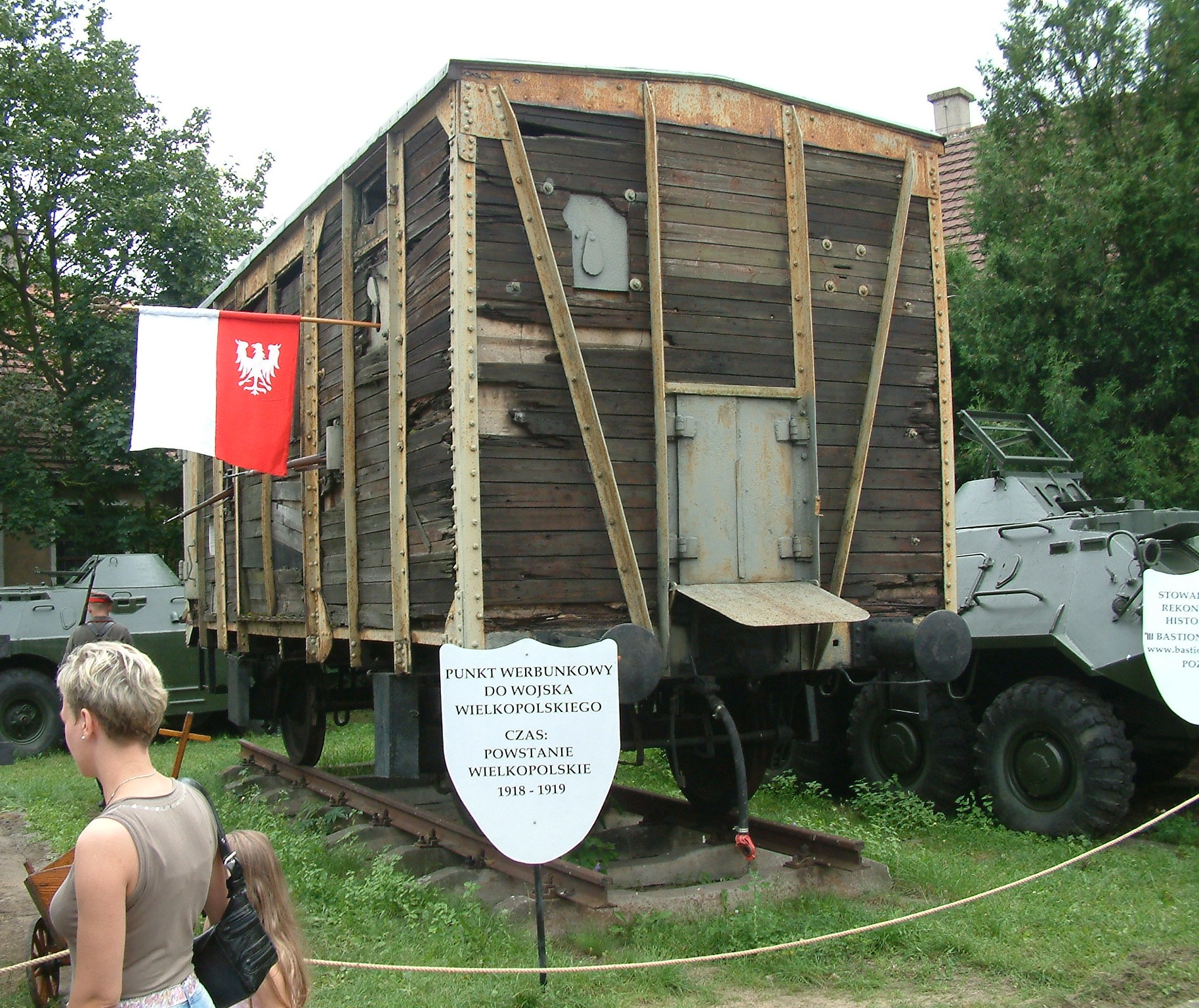 car of armoured train "Poznańczyk" used in world war I, Greater Poland Uprising and world war II